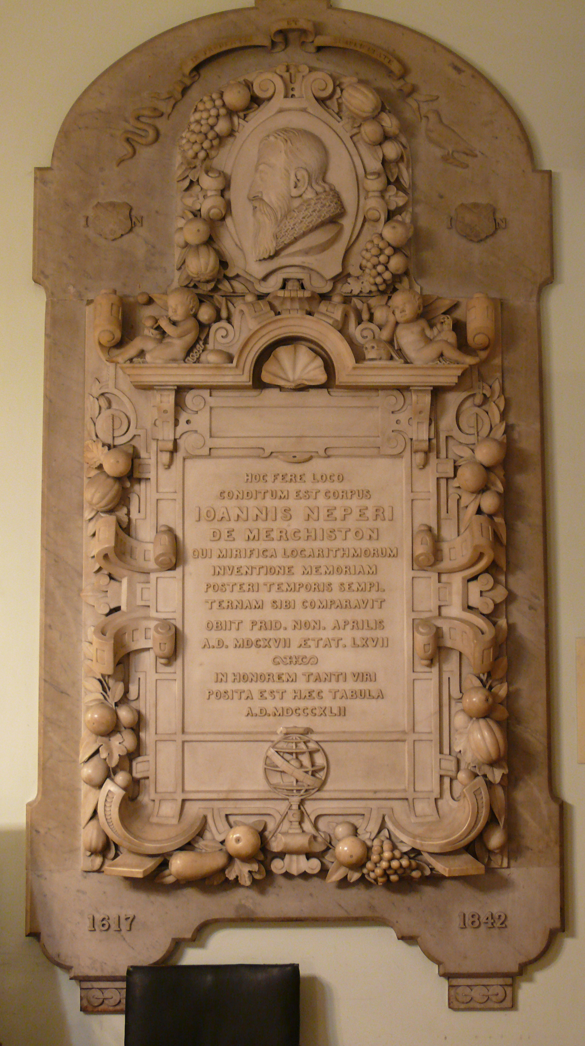 Memorial stone in honour of John Napier in St Cuthbert's Church, Edinburgh.